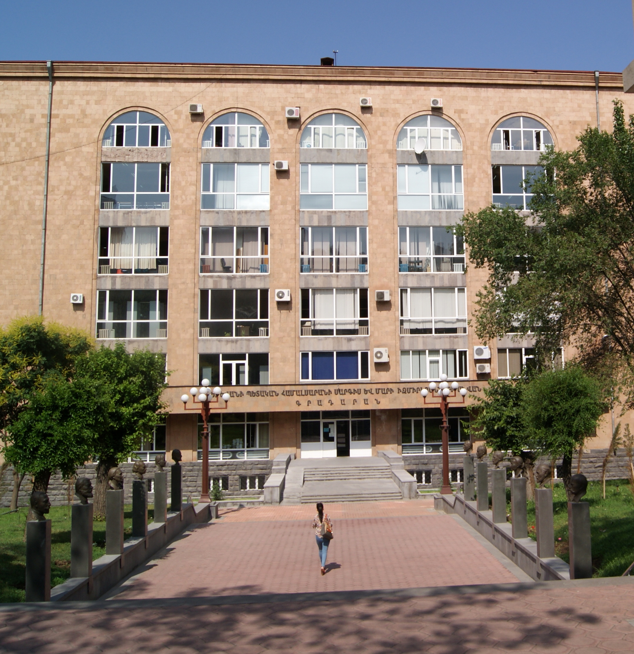 Alley of Gratitude, Yerevan